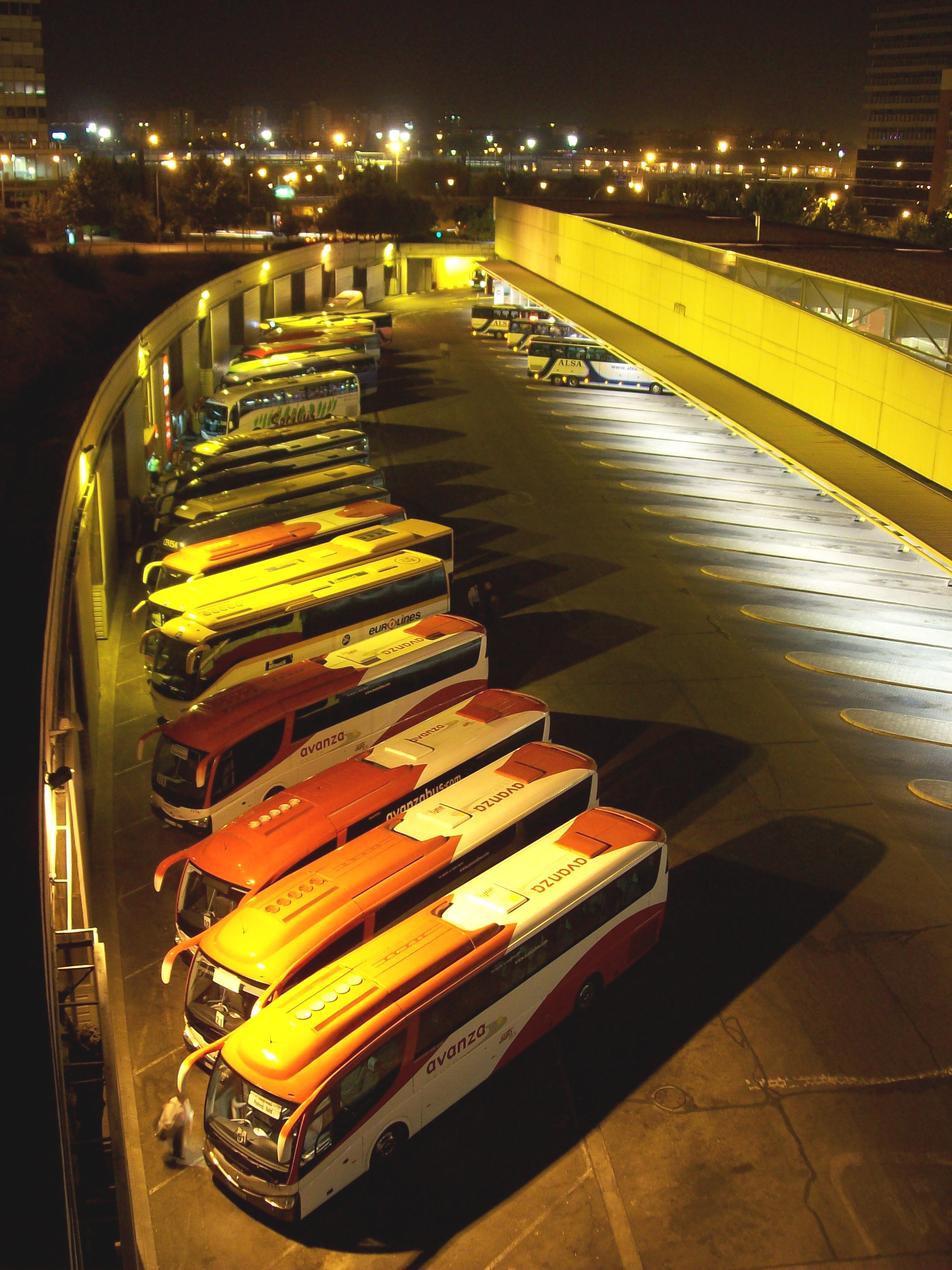 Buses at Méndez Álvaro Station in Madrid (Spain).